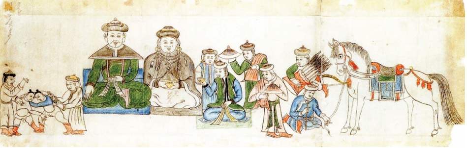 16th century painting of Abtai Sain Khan and his queen kept in the Zanabazar Museum of Fine Arts, Ulan Bator. This is a copy of the original painting at Erdene Zuu monastery in Harhorin, Mongolia which is one of the older examples of Mongol Zurag (Mongol Painting). Erdene Zuu Monastery was built by Abtai Khan (or Avdai Sain Khan) in 1585.